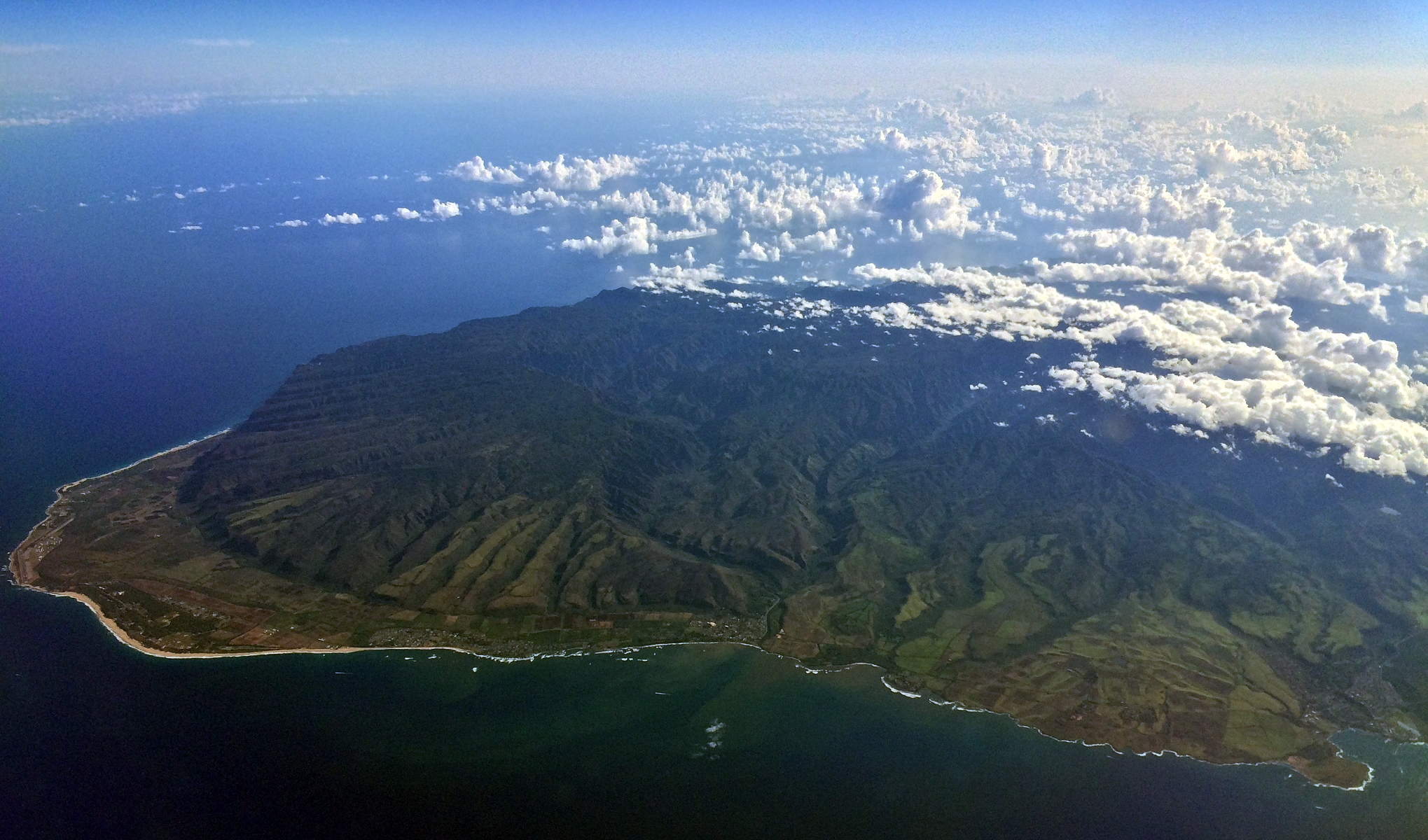 Aerial view to Kauai Island